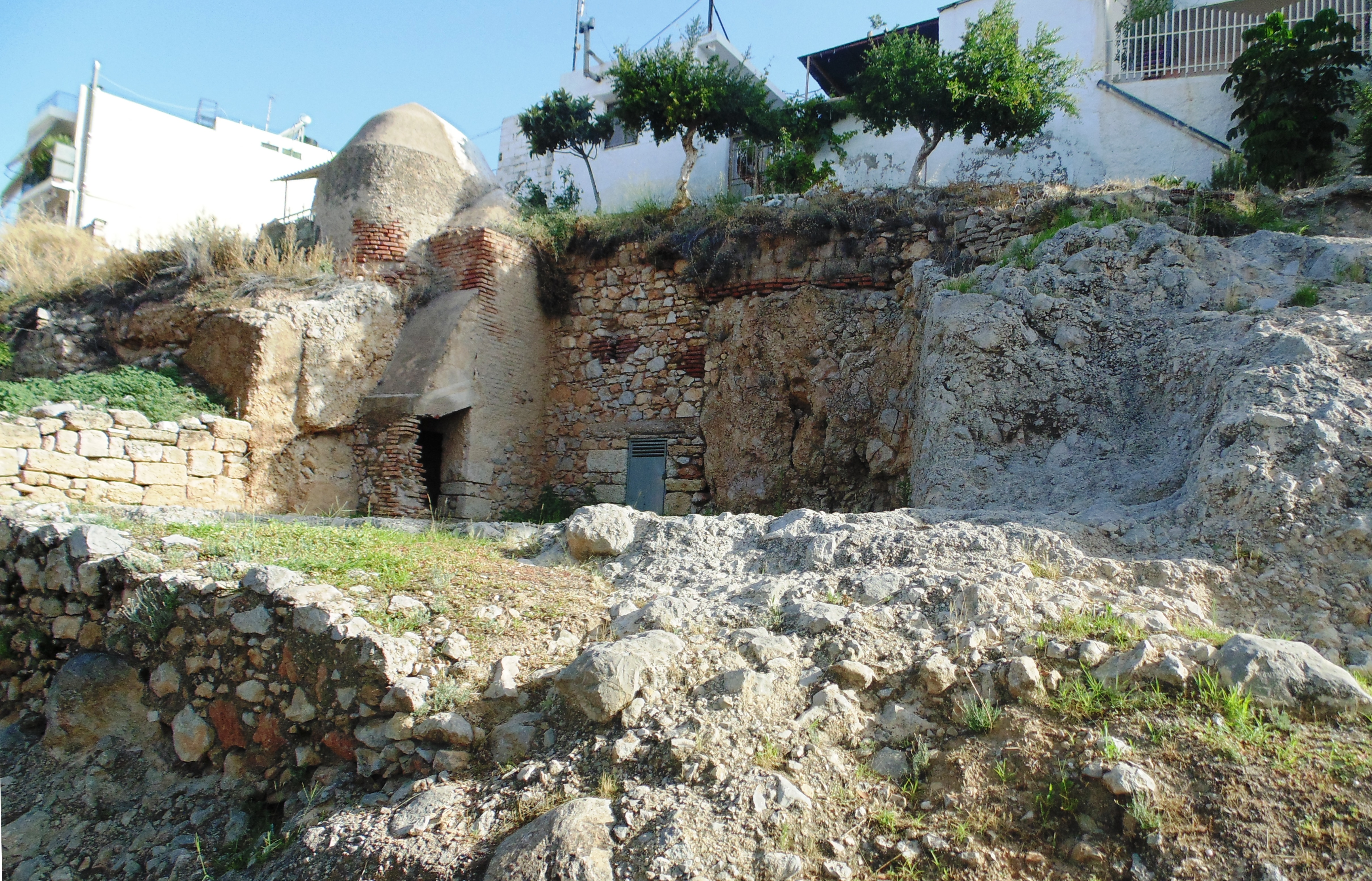 Cave of Demeter